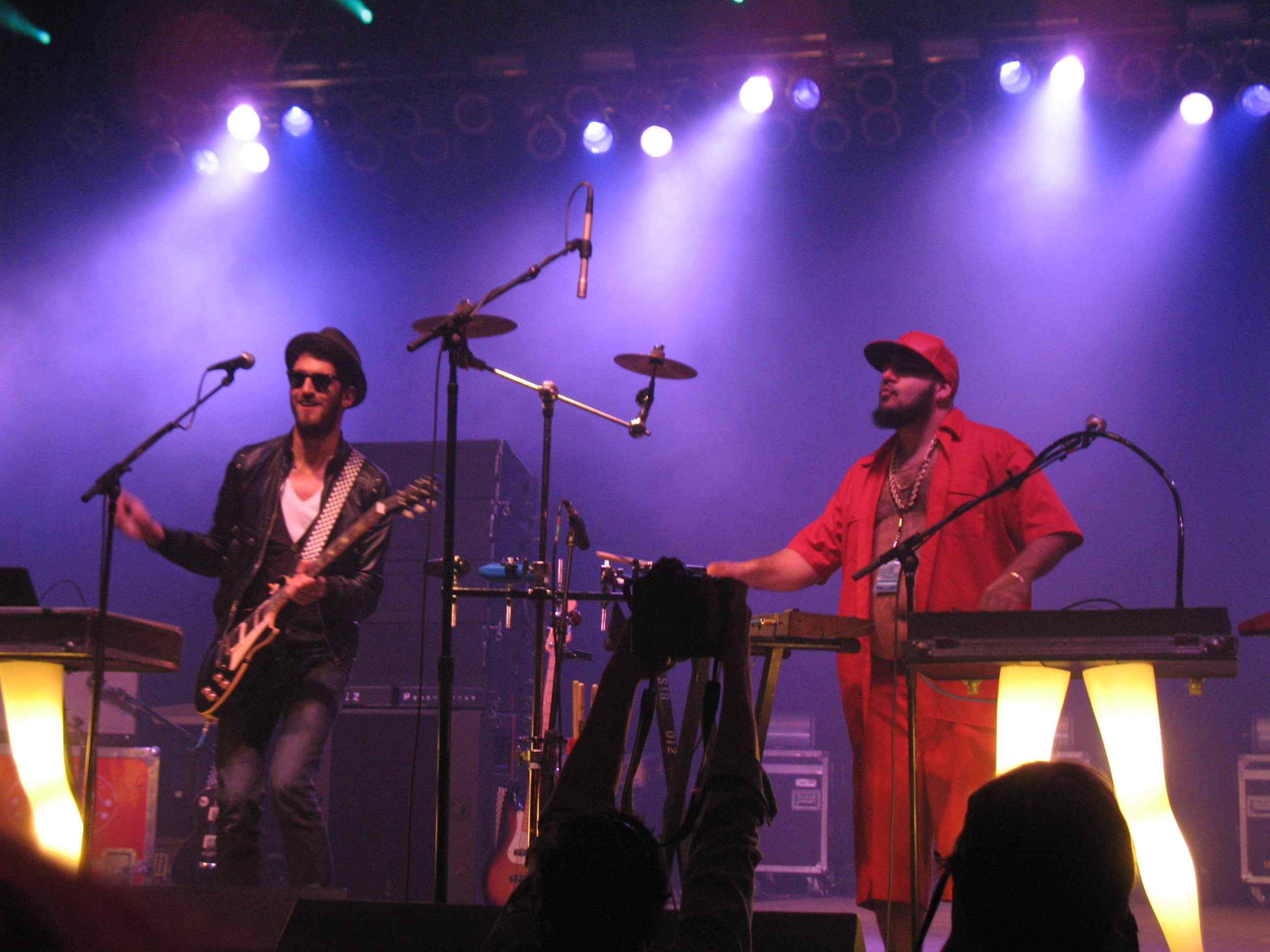 The electrofunk duo Chromeo performing at the 2008 Bonnaroo Music and Arts Festival